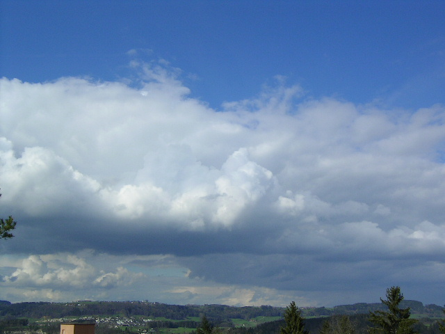 Description: Stratocumulus cumulogenitus, stratocumulus formed from cumulus spreading into stable layer of air, Low Clouds Code 4. Source: Simon Eugster --Simon 08:49, 10 December 2005 (UTC)